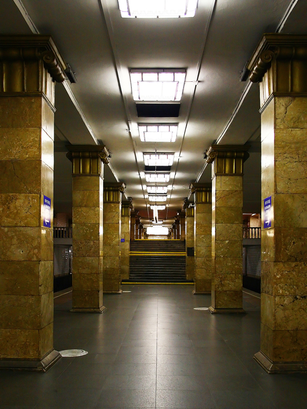 A photo of the Park Kultury metro station in Moscow